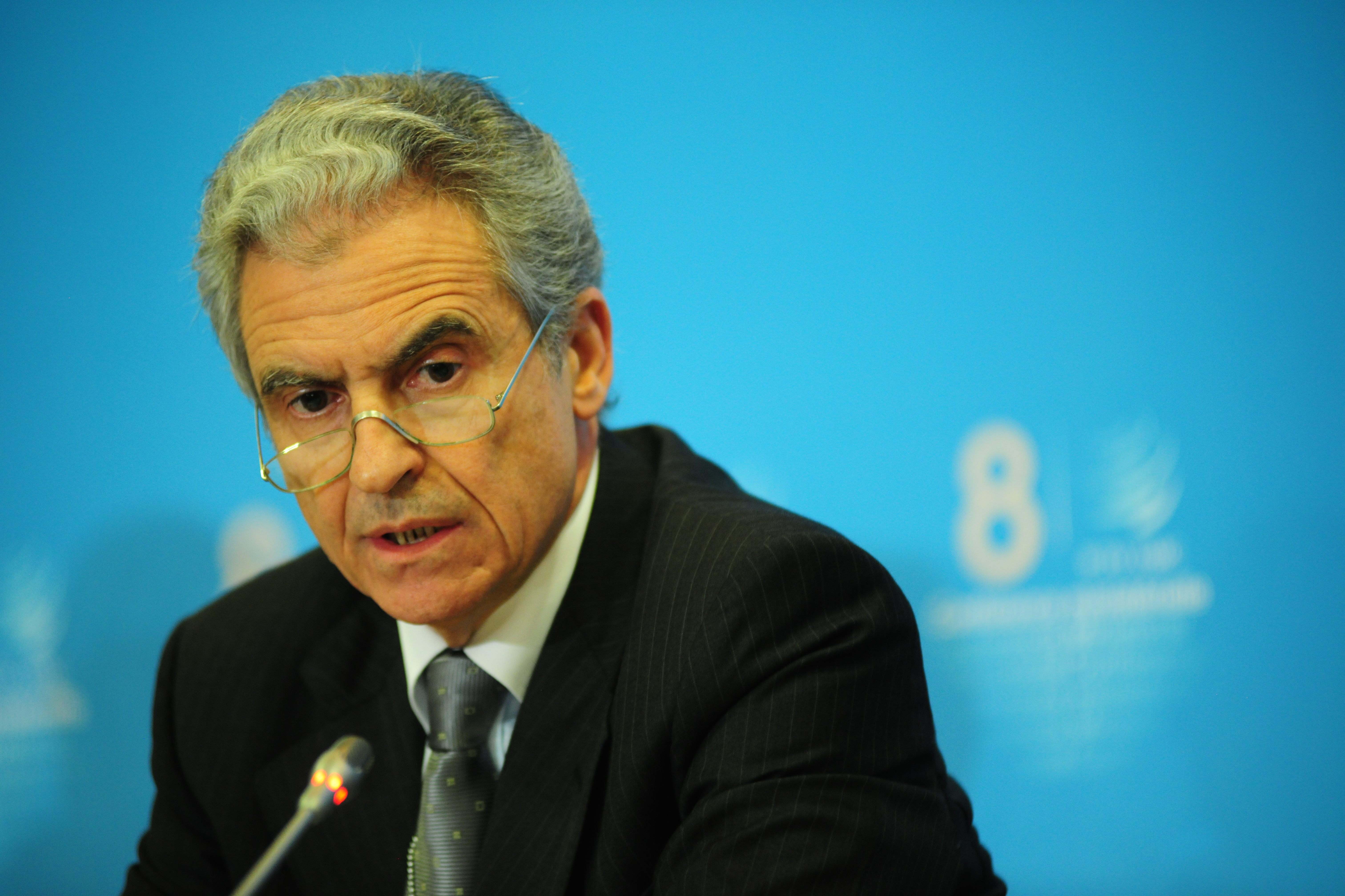 Argentine Ambassador to the World Trade Organization, Alfredo Chiaradía, at the Eighth WTO Ministerial Conference, Geneva, Switzerland, 2011. © WTO Photo: Studio Casagrande (Jay Louvion / Kryvosheiev Nikita)